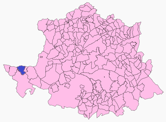 Santiago de Alcántara